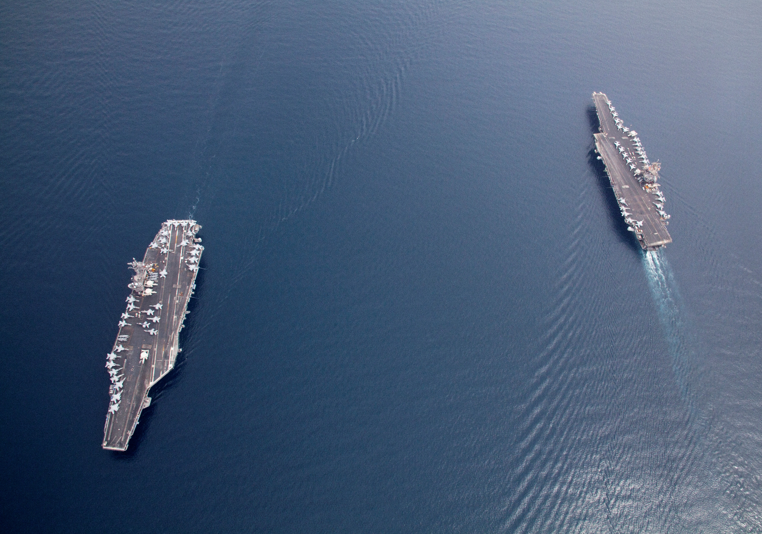 RED SEA (June 21, 2011) The Navy's oldest aircraft carrier, USS Enterprise (CVN 65), right, passes the Navy's newest aircraft carrier, USS George H.W. Bush (CVN 77), during a transit of the Strait of Bab el Mandeb. George H.W. Bush arrives in the U.S. 5th Fleet area of responsibility to take over operations for Enterprise. (U.S. Navy photo by Mass Communication Specialist 2nd Class Brooks B. Patton Jr./Released)